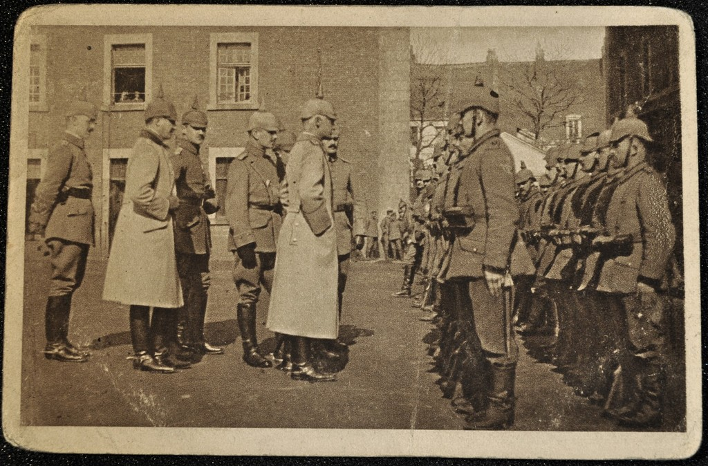 Labeled Postcard from Miss Nördingen to her fiancé John Ostermeier and returns. He served in the first Army Corps, 1st Division, Second Infantry Regiment.